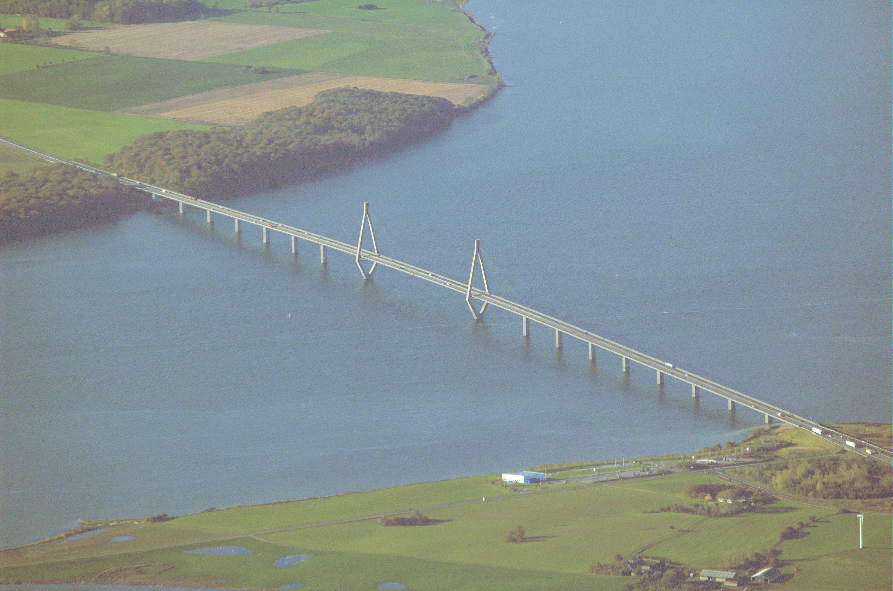 Southern section of Farø Bridge from the island of Farø (right) to Falster (left) in south eastern Denmark. Taken by contributor November 2006